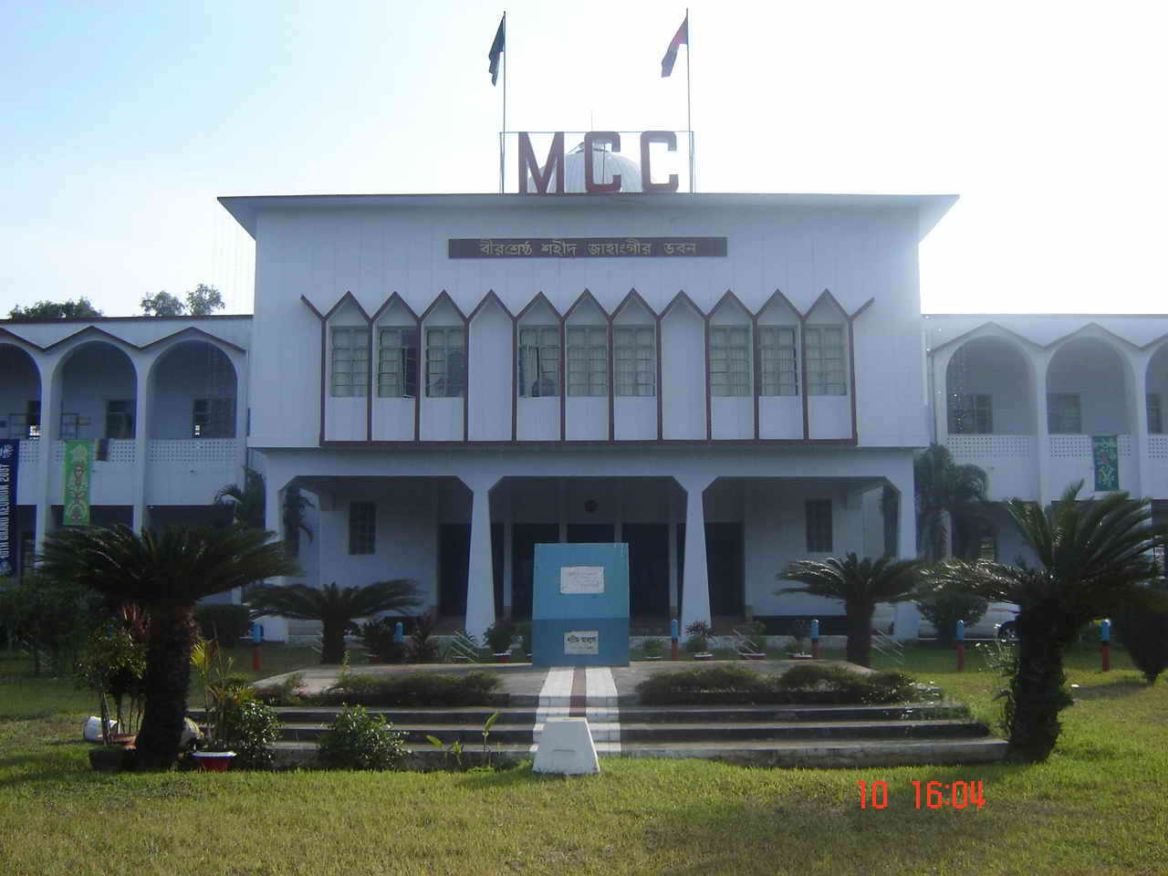 Academy building of Mirzapur Cadet College